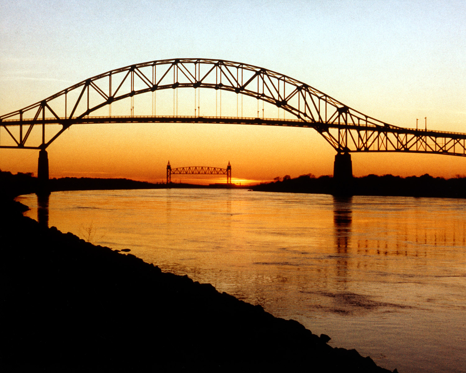 The Bourne Bridge over the Cape Cod Canal, with the Cape Cod Canal Railroad Bridge in the background. The bridges are located near the town of Bourne in Barnstable County, Massachusetts. These are two of the three bridges over the Cape Cod Canal.